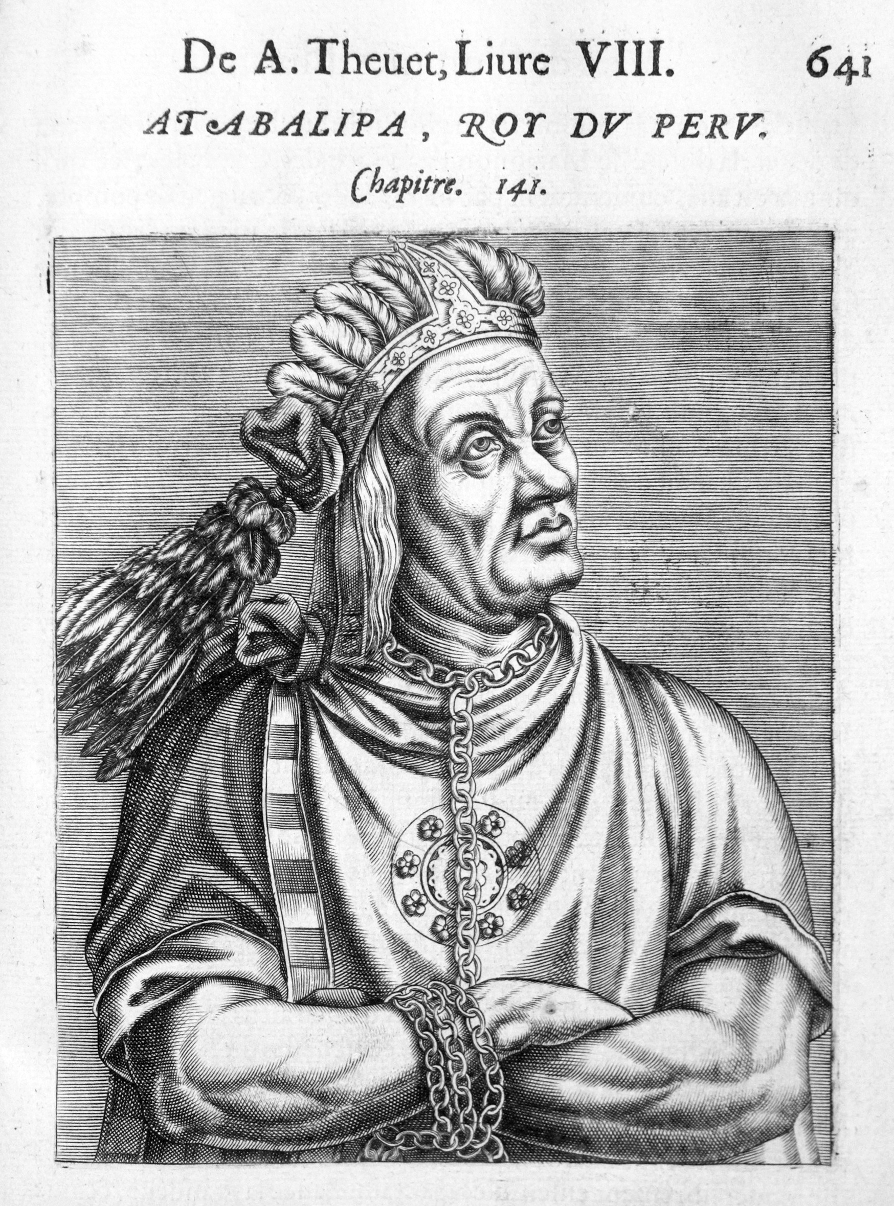 Atahualpa, Pourtraits et Vies des Hommes Illustres, André Thévet, Paris 1584